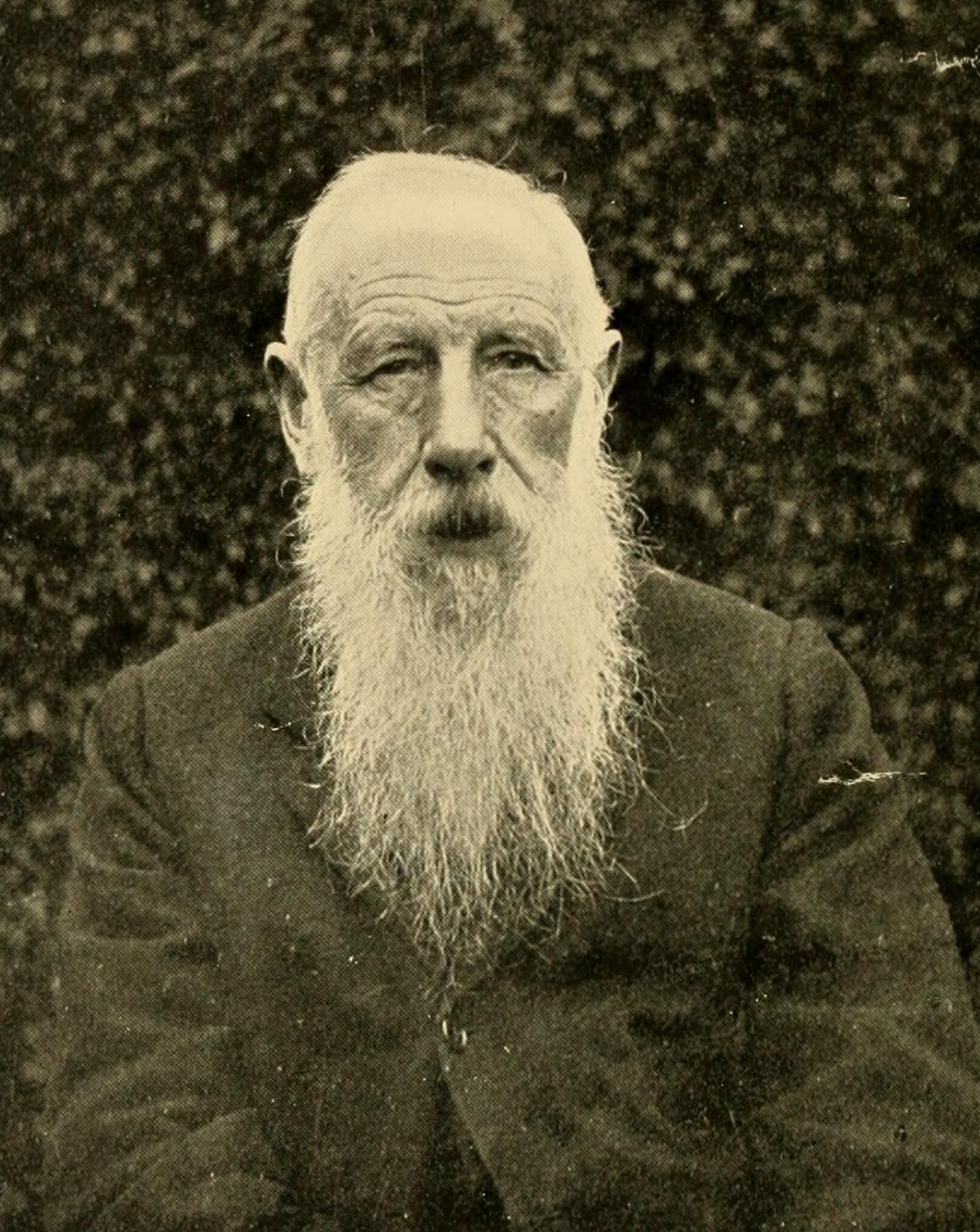 Portrait photo of David Sharp (British entomologist), taken from the obituary by W. J. Lucas in The Entomologist, vol.55 (1922).